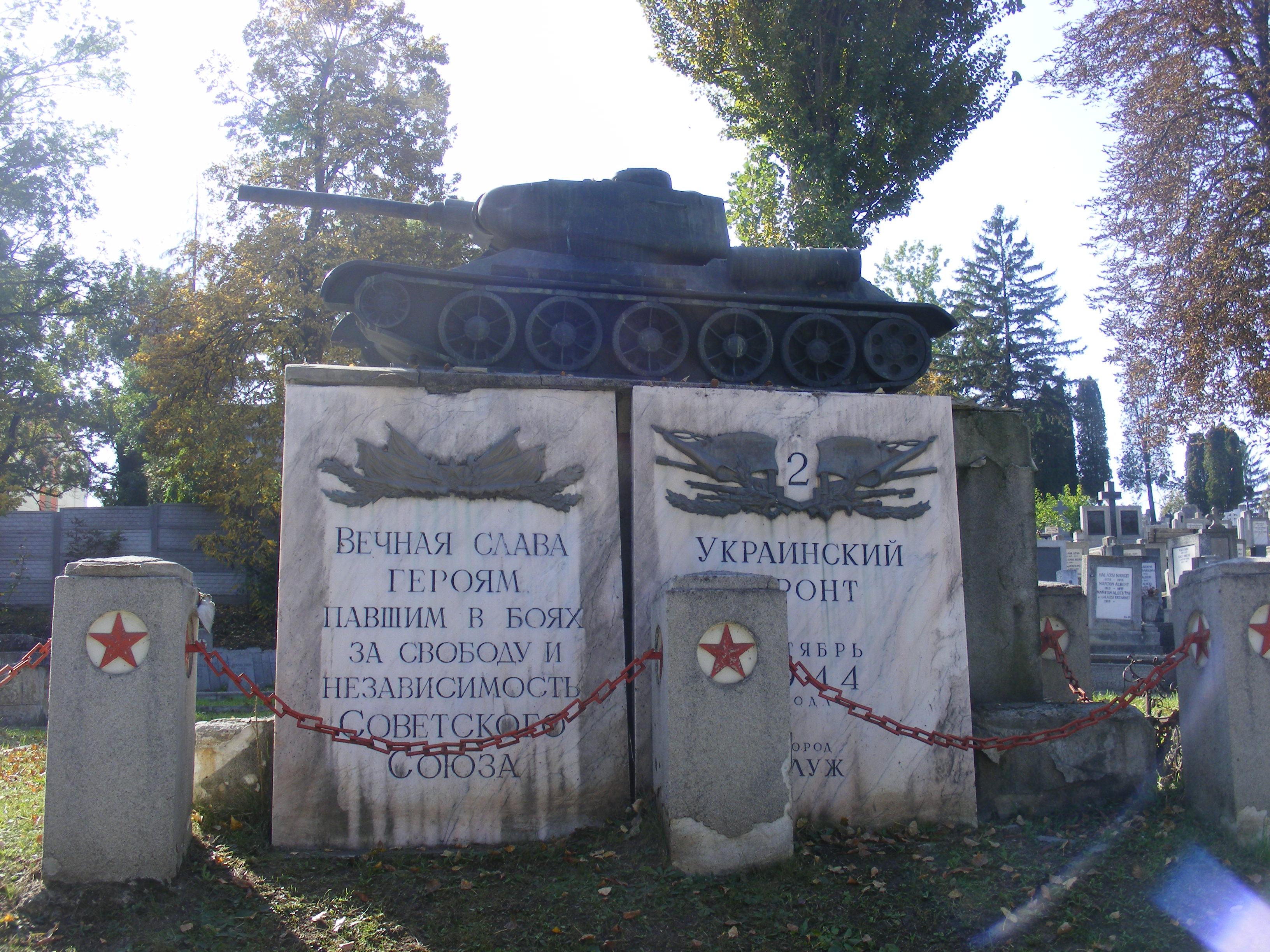 Memorial for the fallen soldiers of the 2. Ukrainian Front at Cluj, Romania.